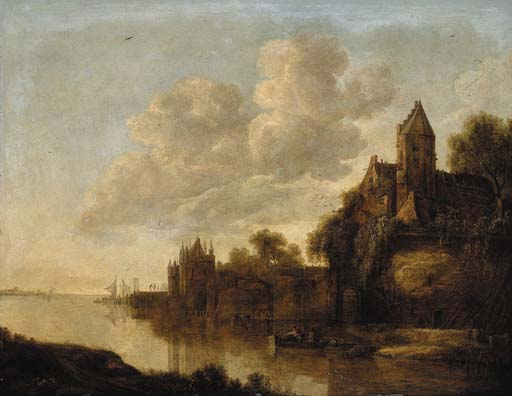 Castle by a river, signed lower left AVBoom